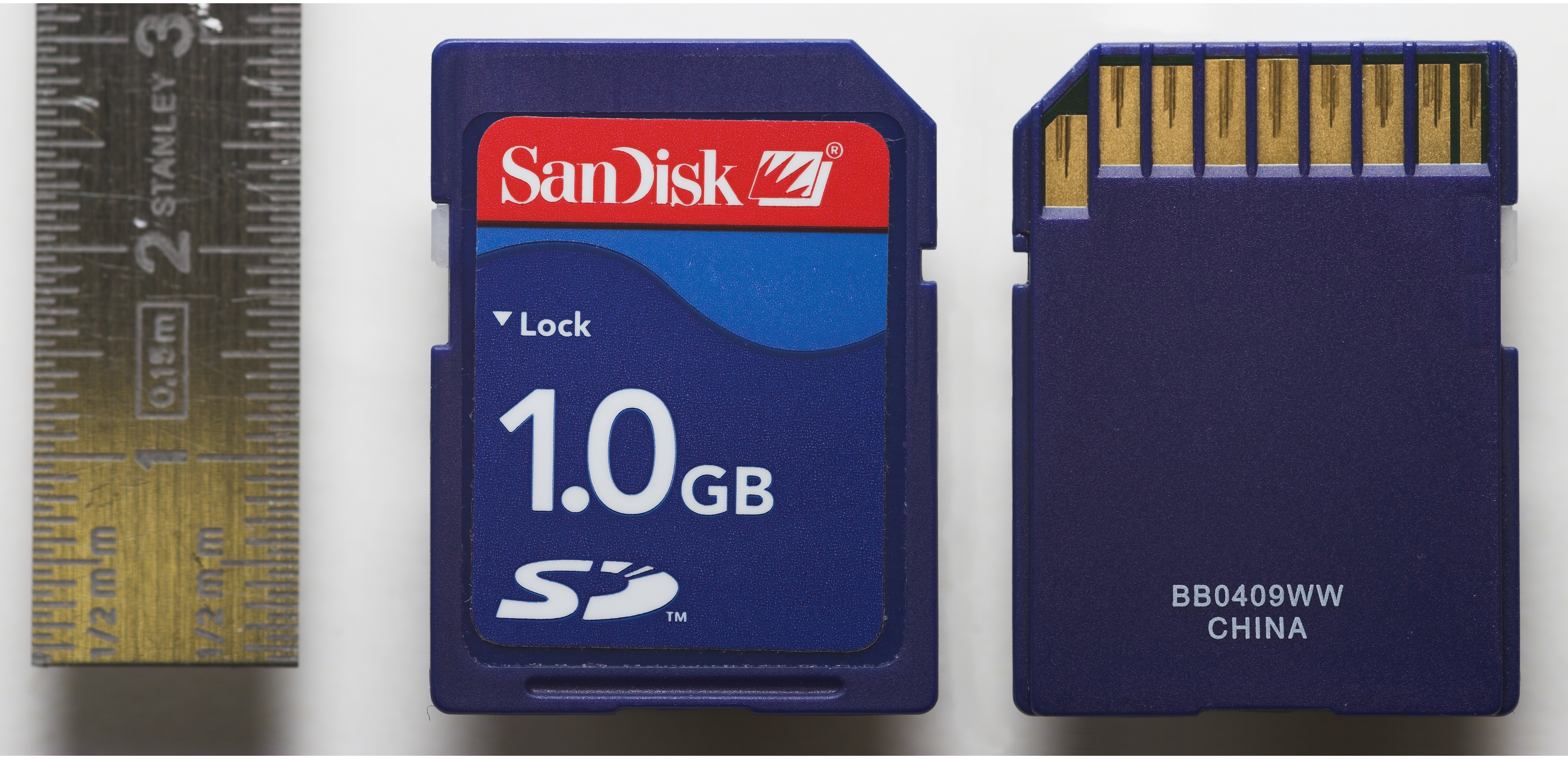 1GByte SD Card (Secure Digital Card) manufactured by Sandisk.